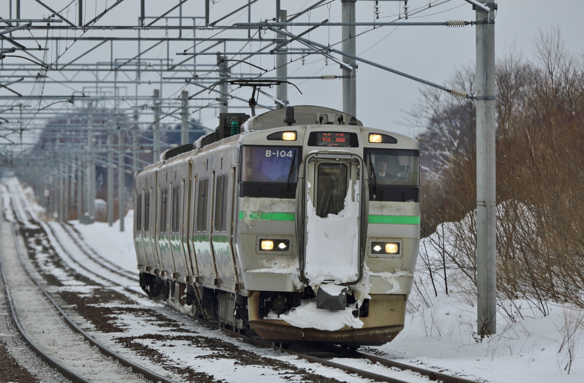 JR Hokkaido 733 series 3-car EMU set B-104 between Kita-Hiroshima and Shimamatsu on the Chitose Line in Hokkaido, Japan